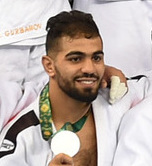 Judo at the 2017 Islamic Solidarity Games